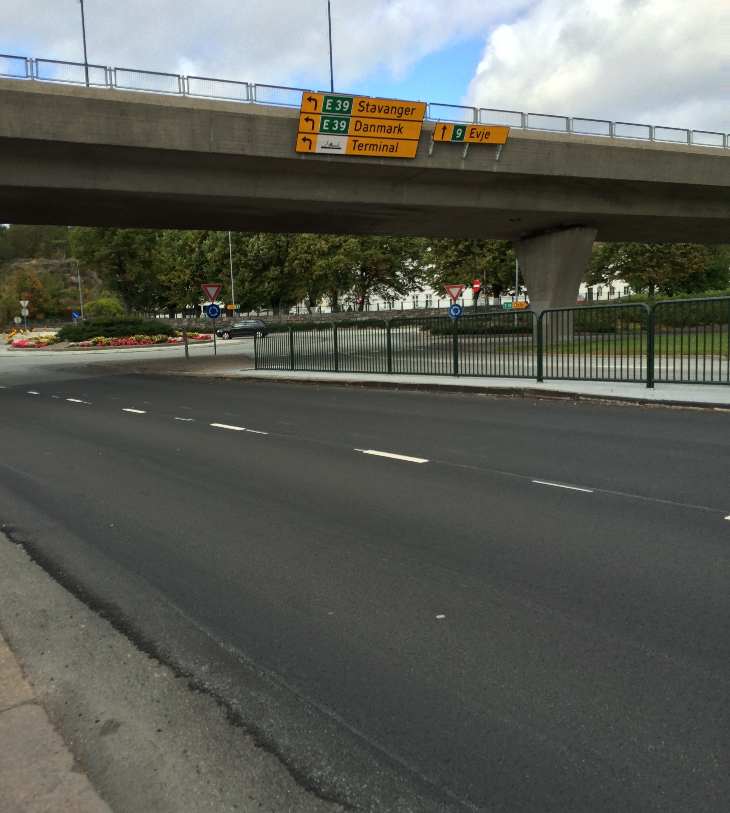 Exiting downtown Kristiansand.